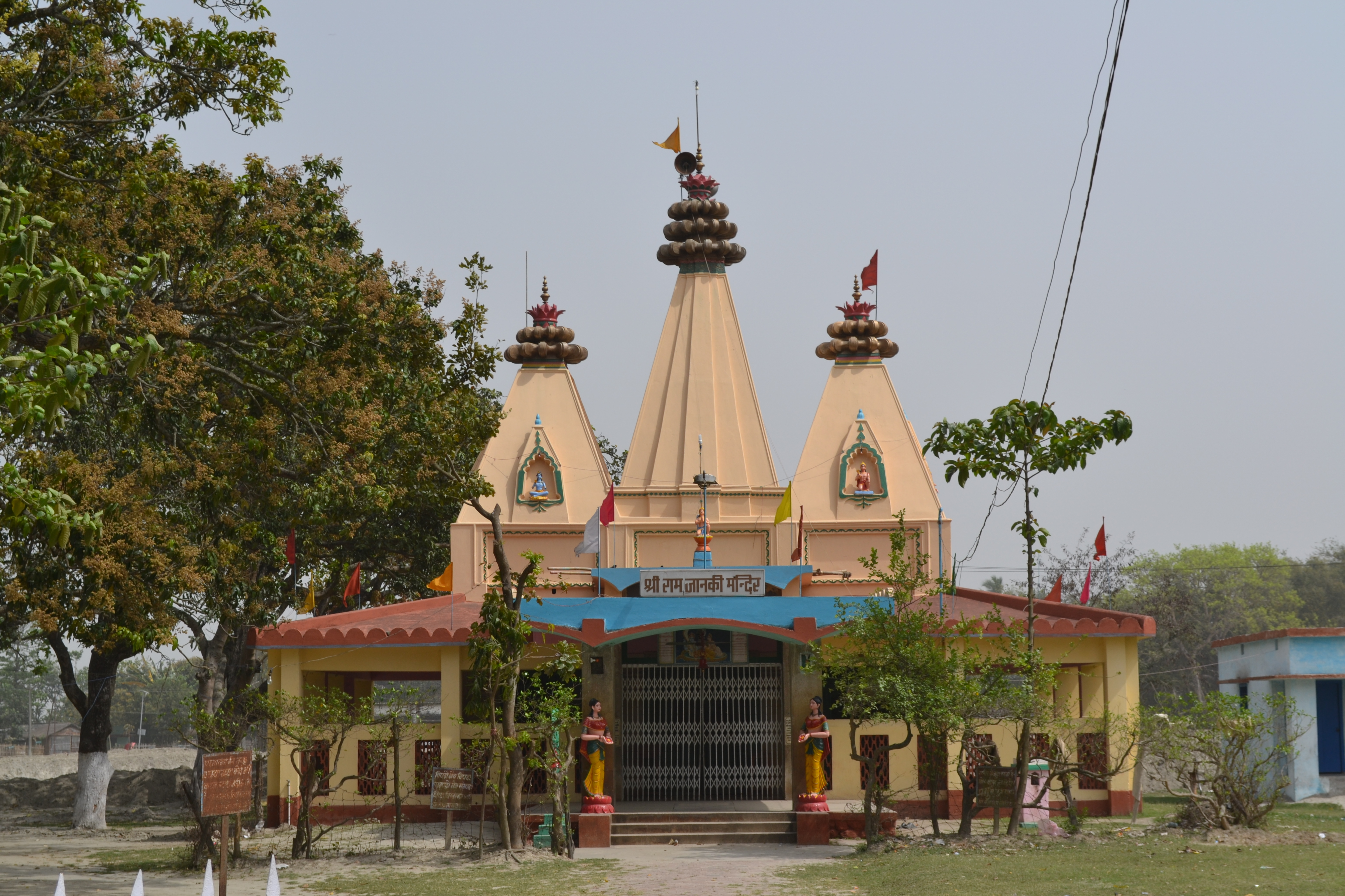 Ram janki mandir in birpur